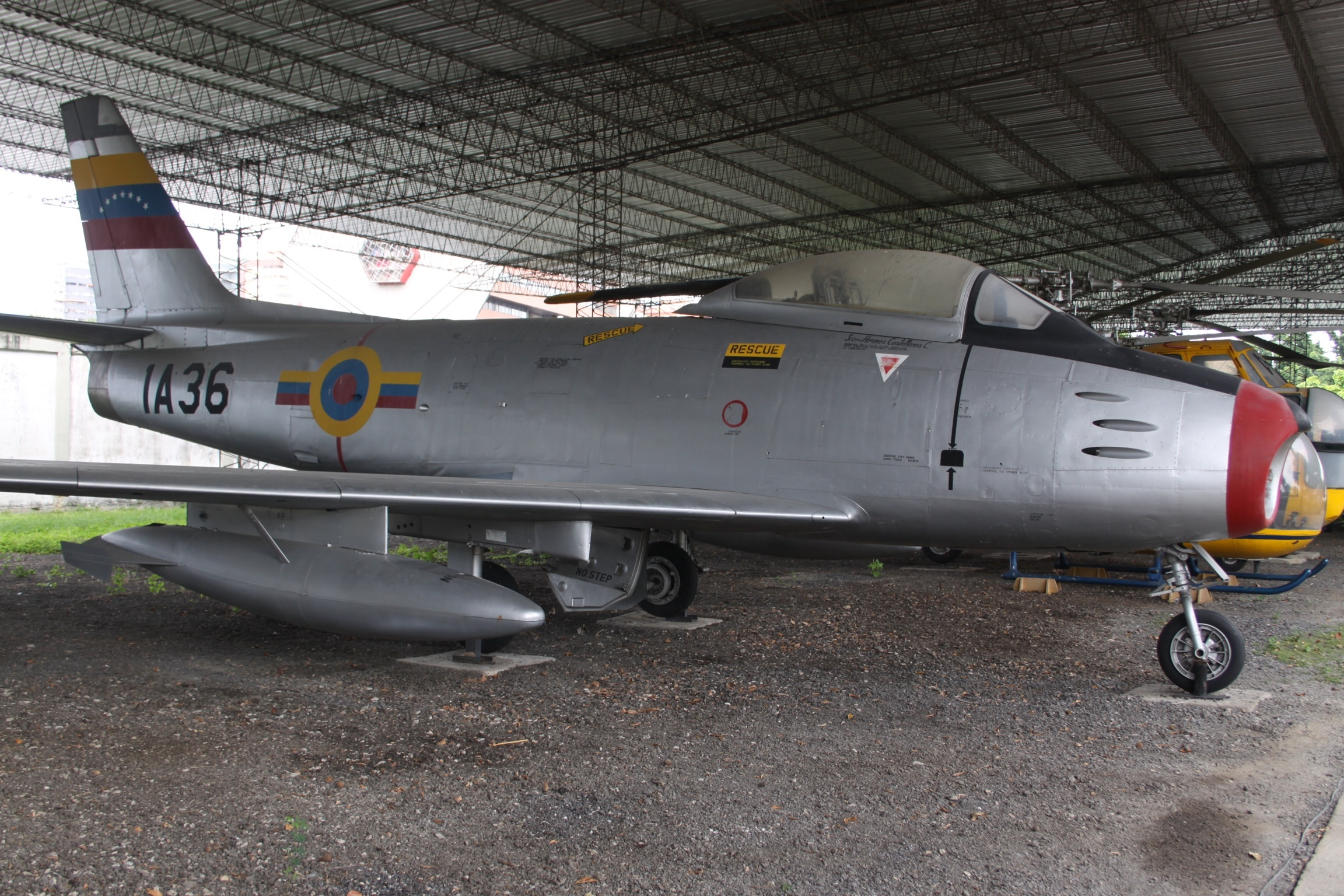 At Museo Aeronáutico de Maracay